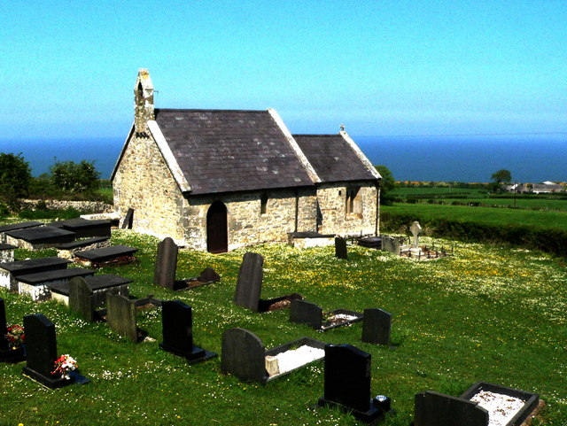 Llanfihangel-ty'n-sylwy Church A view of St Michaels or Llanfihangel-ty'n-sylwy Church on a fine May day. The church yard hosts a fine display of wild flowers.